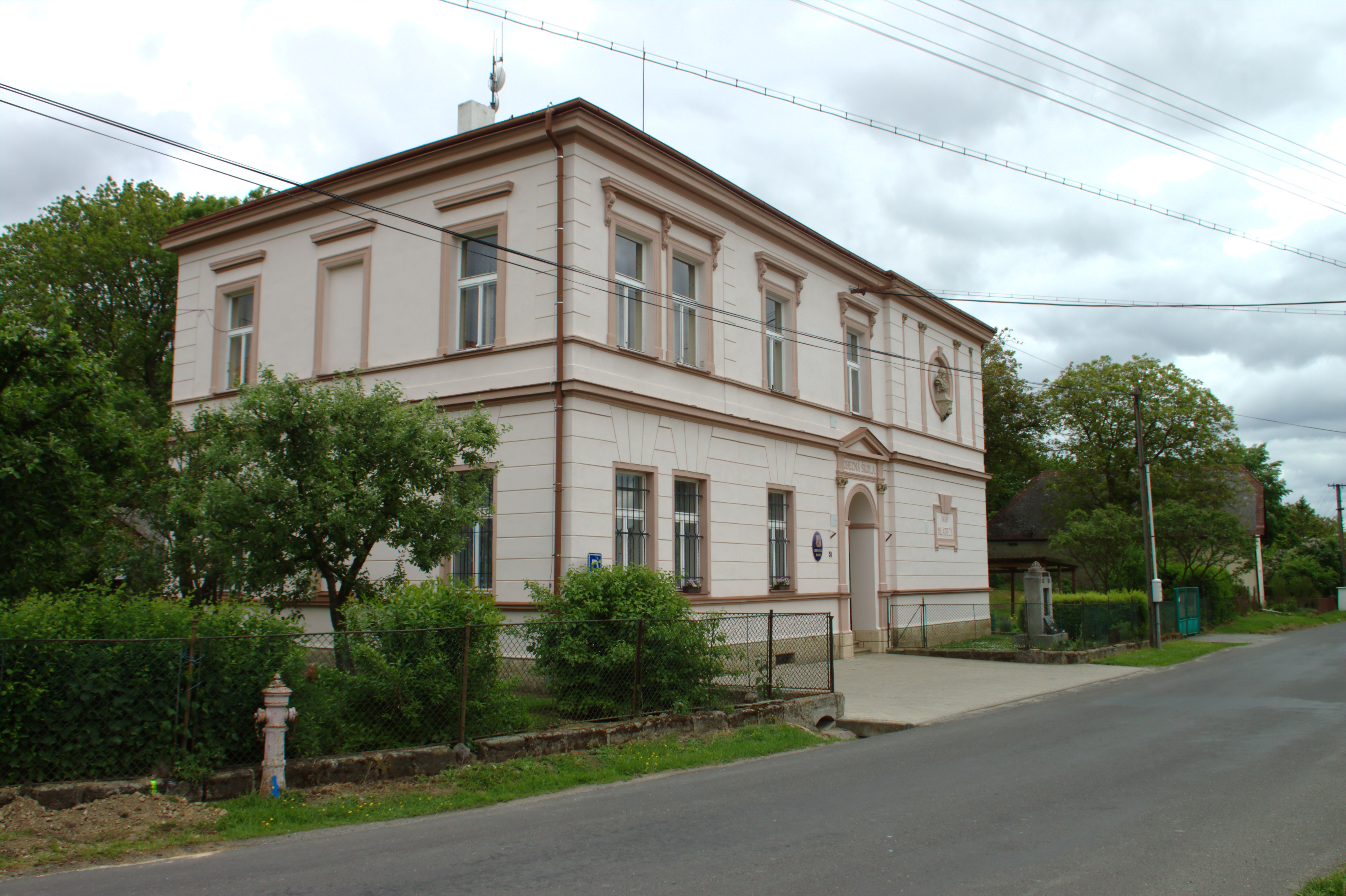 A school building in the town of Boreč, Central Bohemian Region, CZ